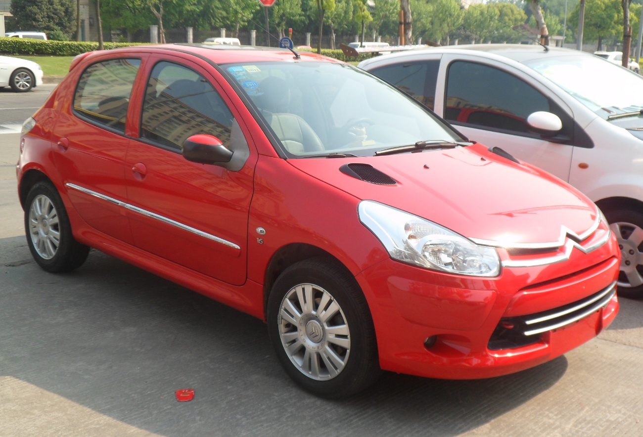 Citroën C2 CN photographed in Shanghai, China.